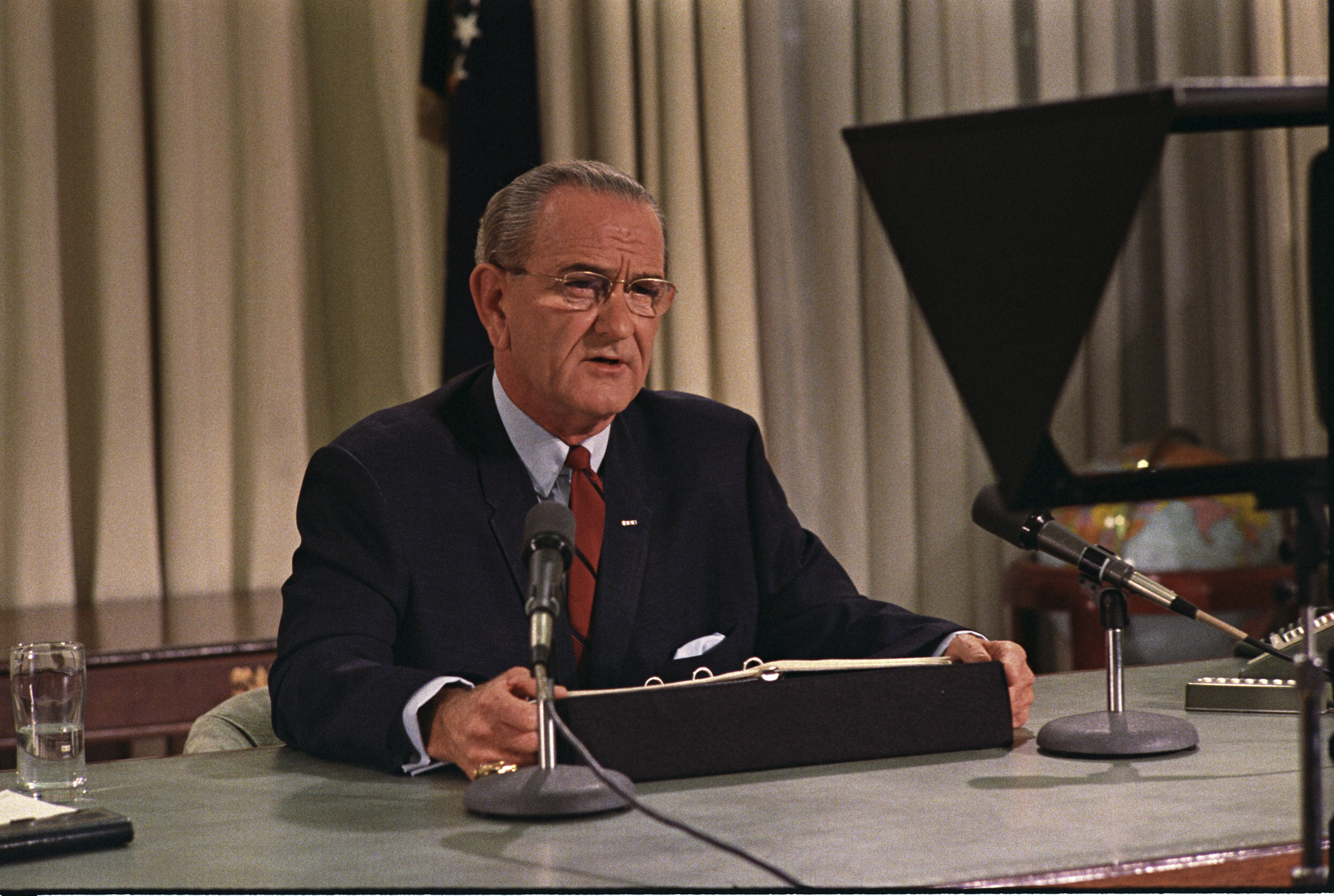 Lyndon B. Johnson speaks to nation on TV on March 31, 1968, announcing a bombing halt in Vietnam and his intention not to run for re-election.